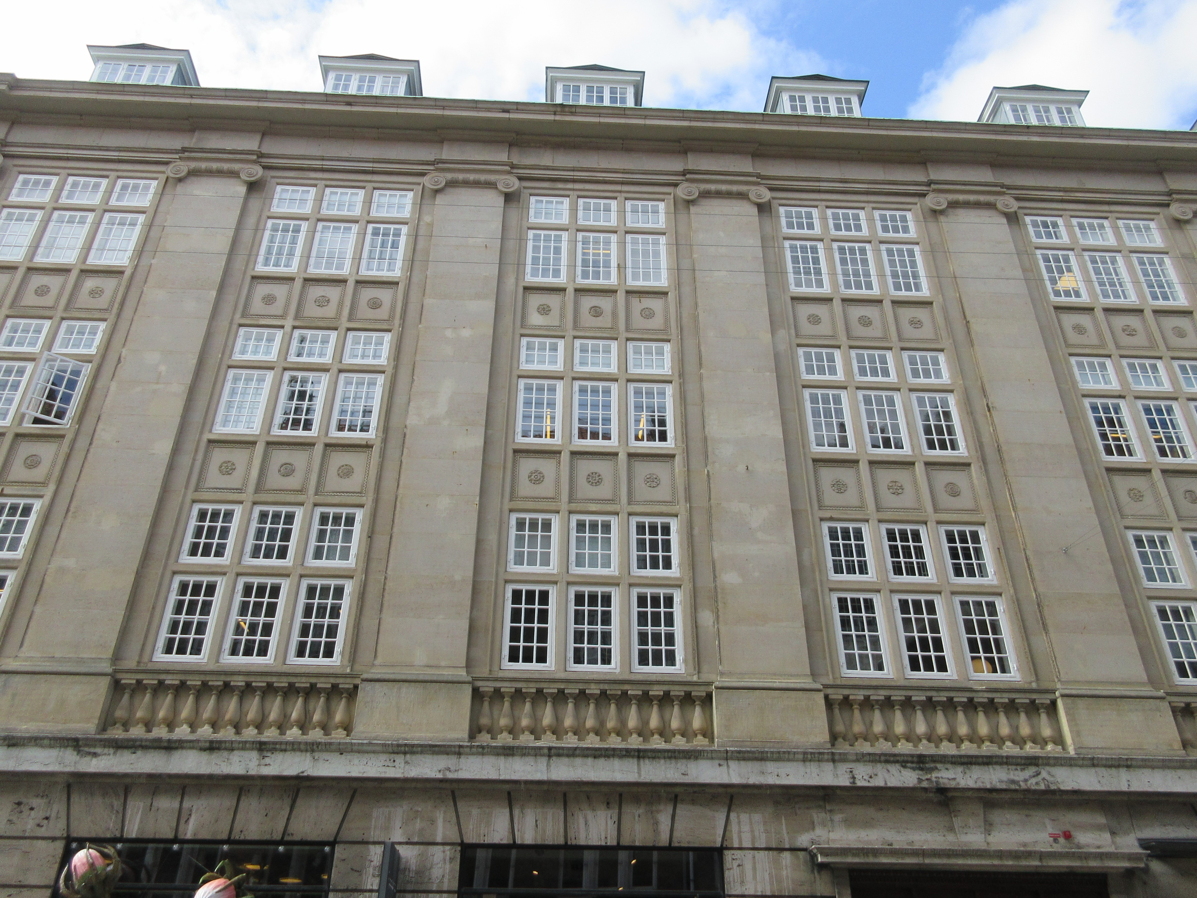 The facade of the Møntergården building in Møntergade in Copenhagen, Denmark